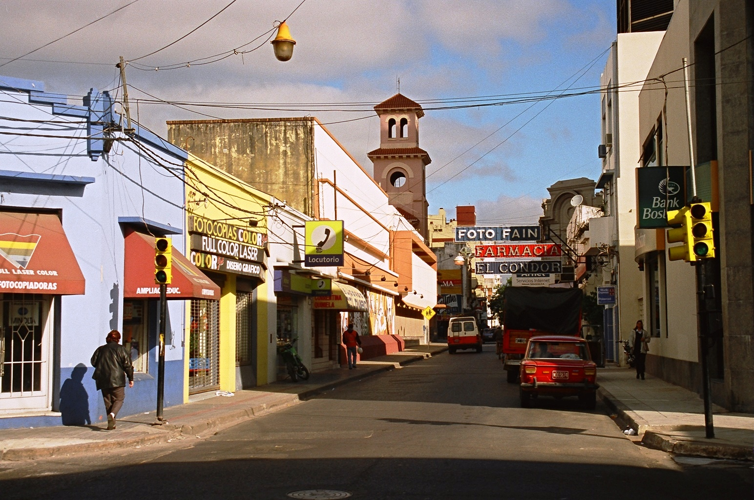 A picturesque street in Corrientes, capital of the province of the same name in Argentina.